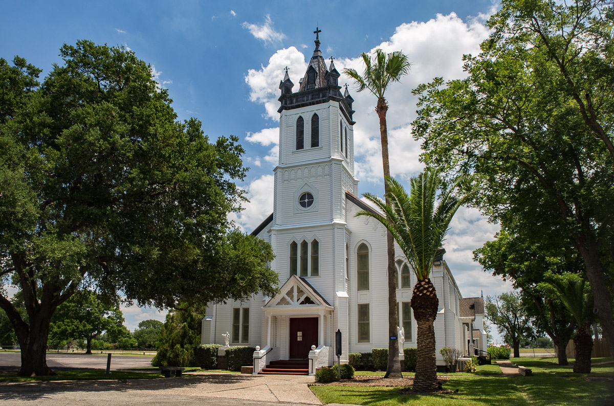 Church of the Guardian Angel is located in Wallis, Texas